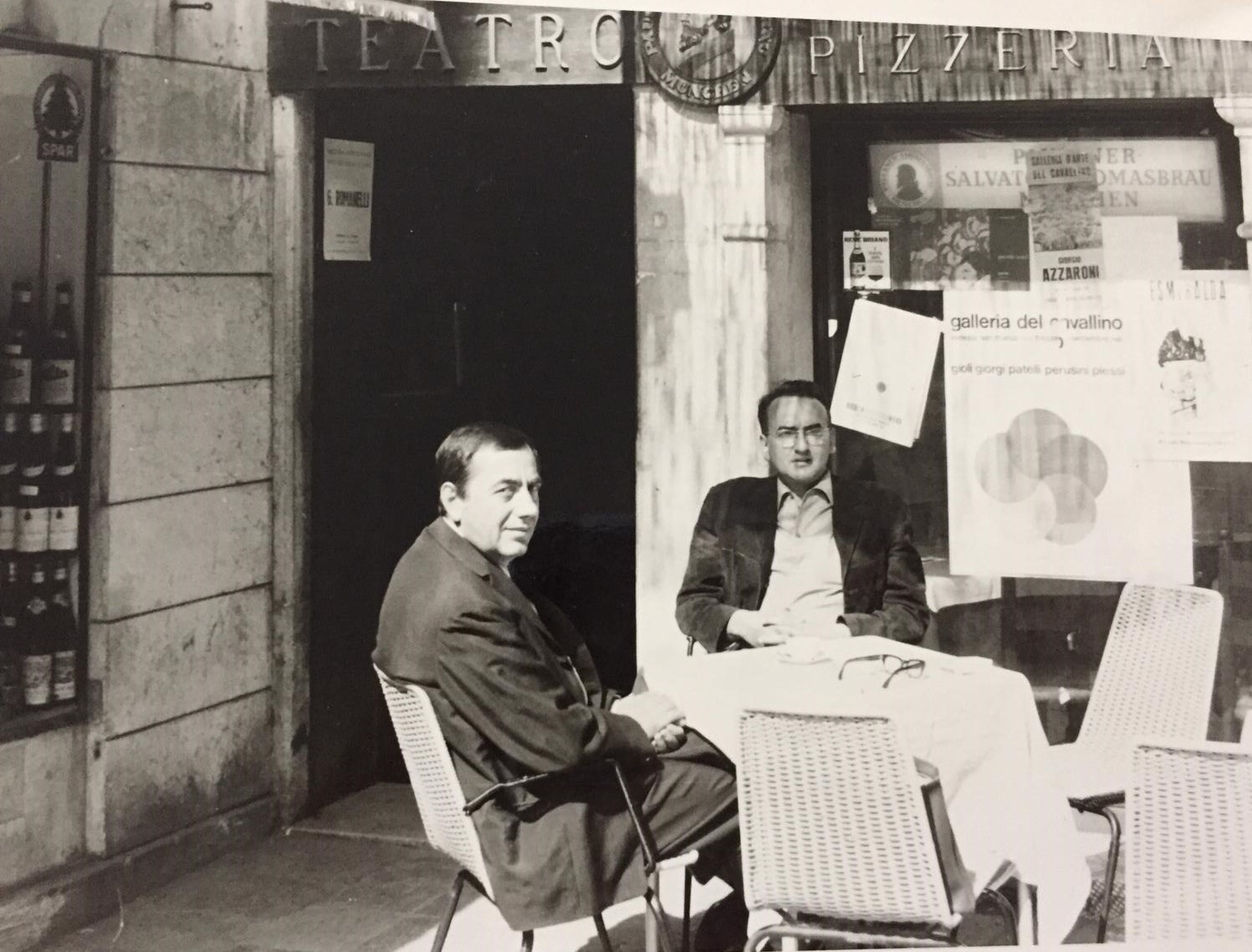 Miodrag Pavlović and Vasko Popa; Serbian poets, writers and academics